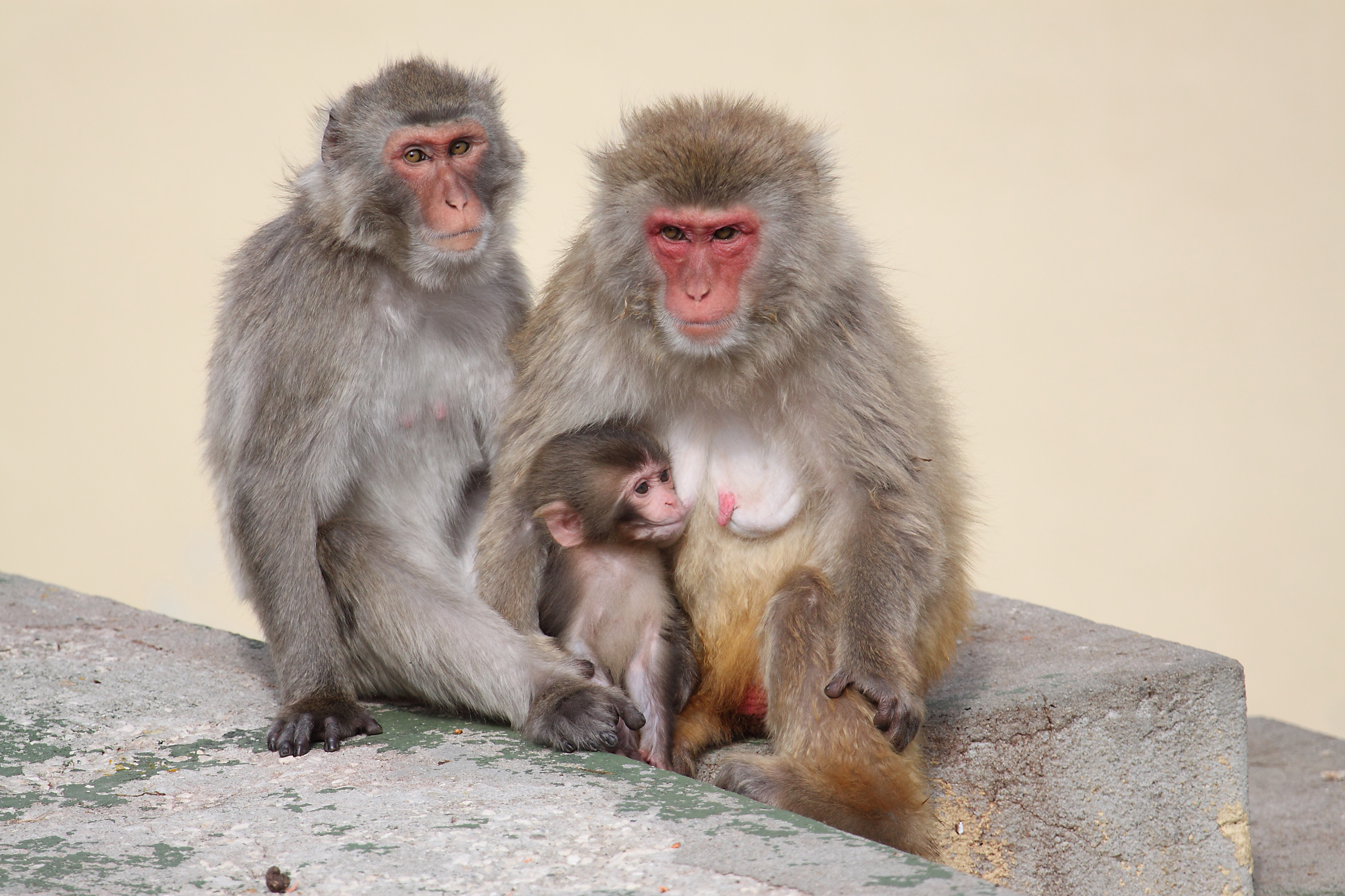 Monkey of Japan - Happy Family